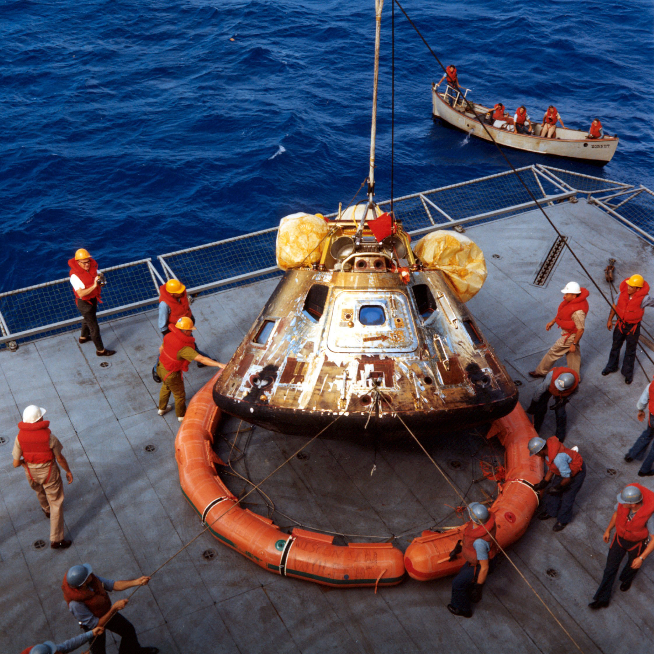 The Apollo 11 spacecraft Command Module is photographed being lowered to the deck of the U.S.S. Hornet, prime recovery ship for the historic lunar landing mission. Note the flotation ring attached by Navy divers has been removed from the capsule.